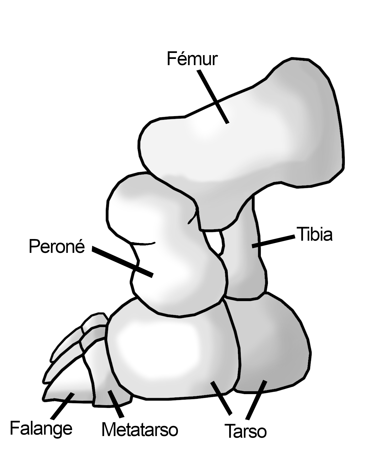 Dry Bowser's leg structure